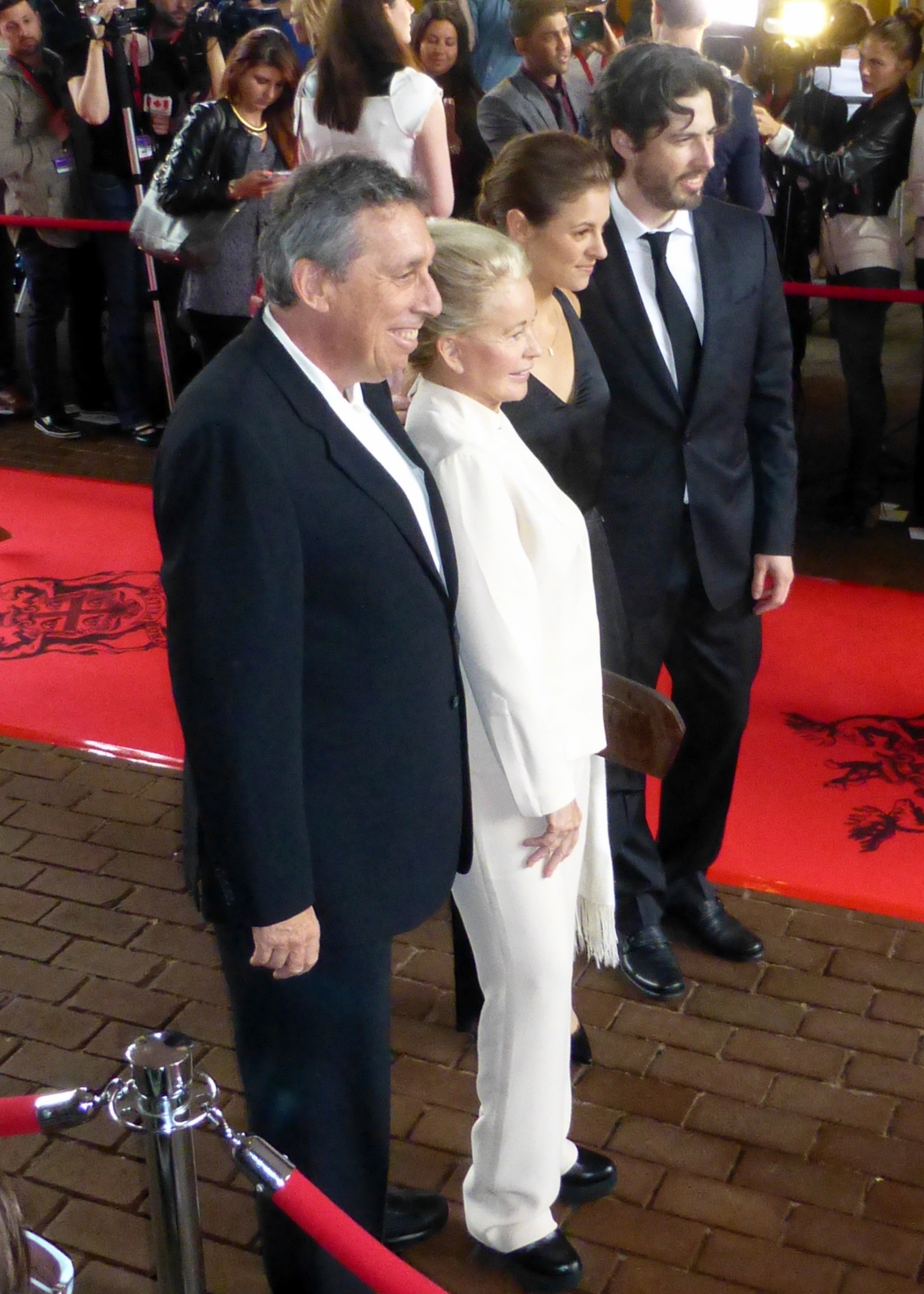 Ivan Reitman, his wife Geneviève Robert, guest, and Jason Reitman at the premiere of Labor Day, Toronto Film Festival 2013